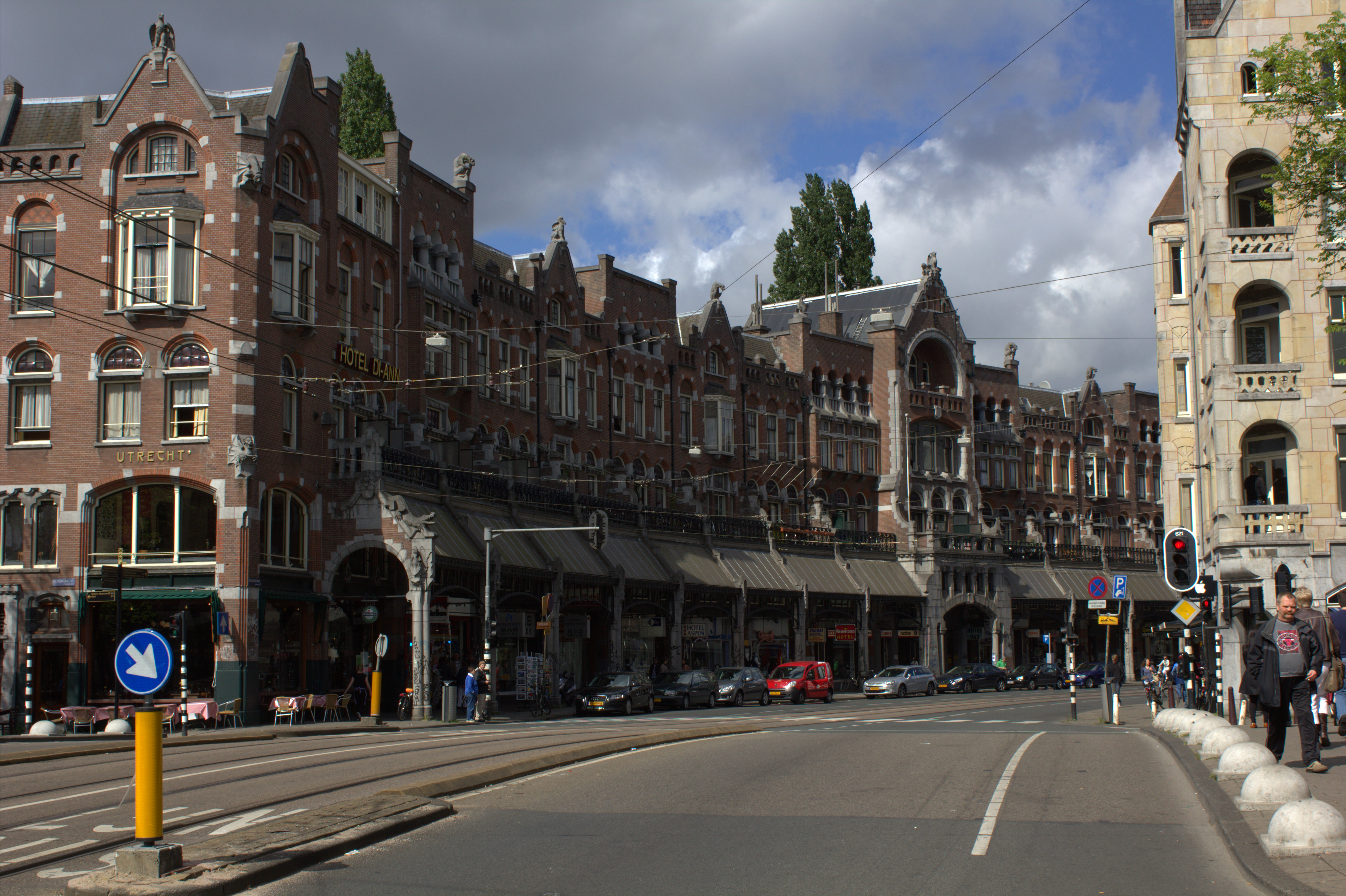 Raadhuistraat at Amsterdam